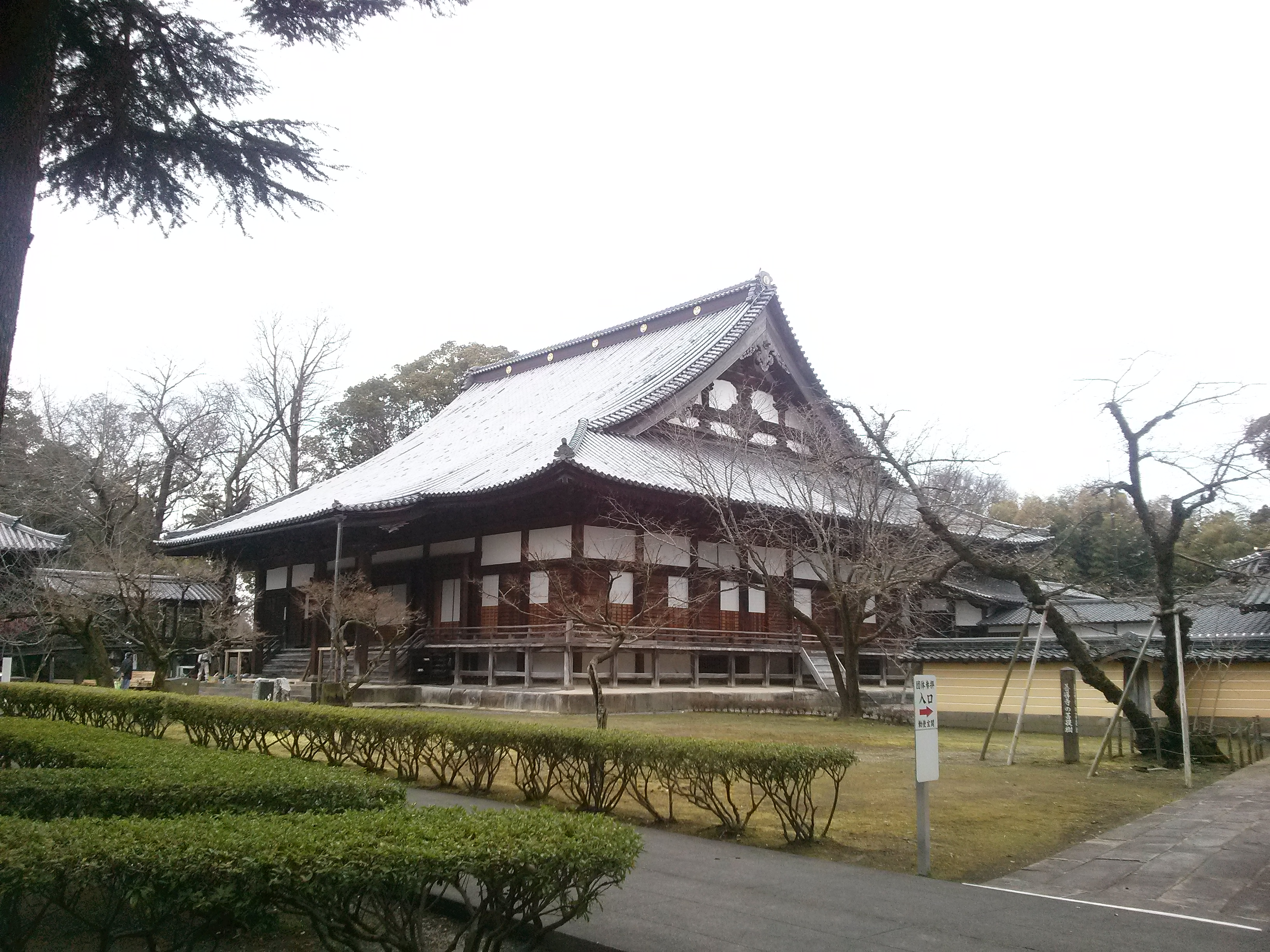 Zendoji Temple Main Building